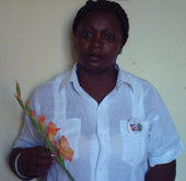 Berta Soler, Ladie in White, the wife of de cuban political prisoner Ángel Moya Acosta.